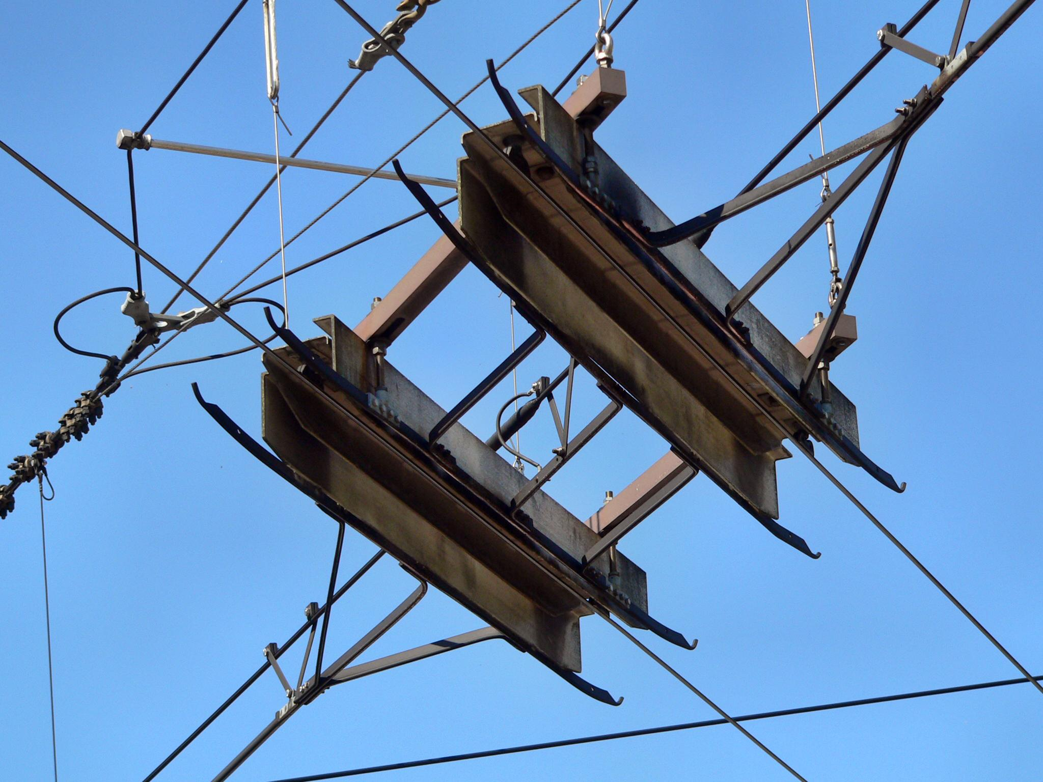 Trolleybus overhead lines, crossing of the Salzburger Lokalbahn in Salzburg, Austria.